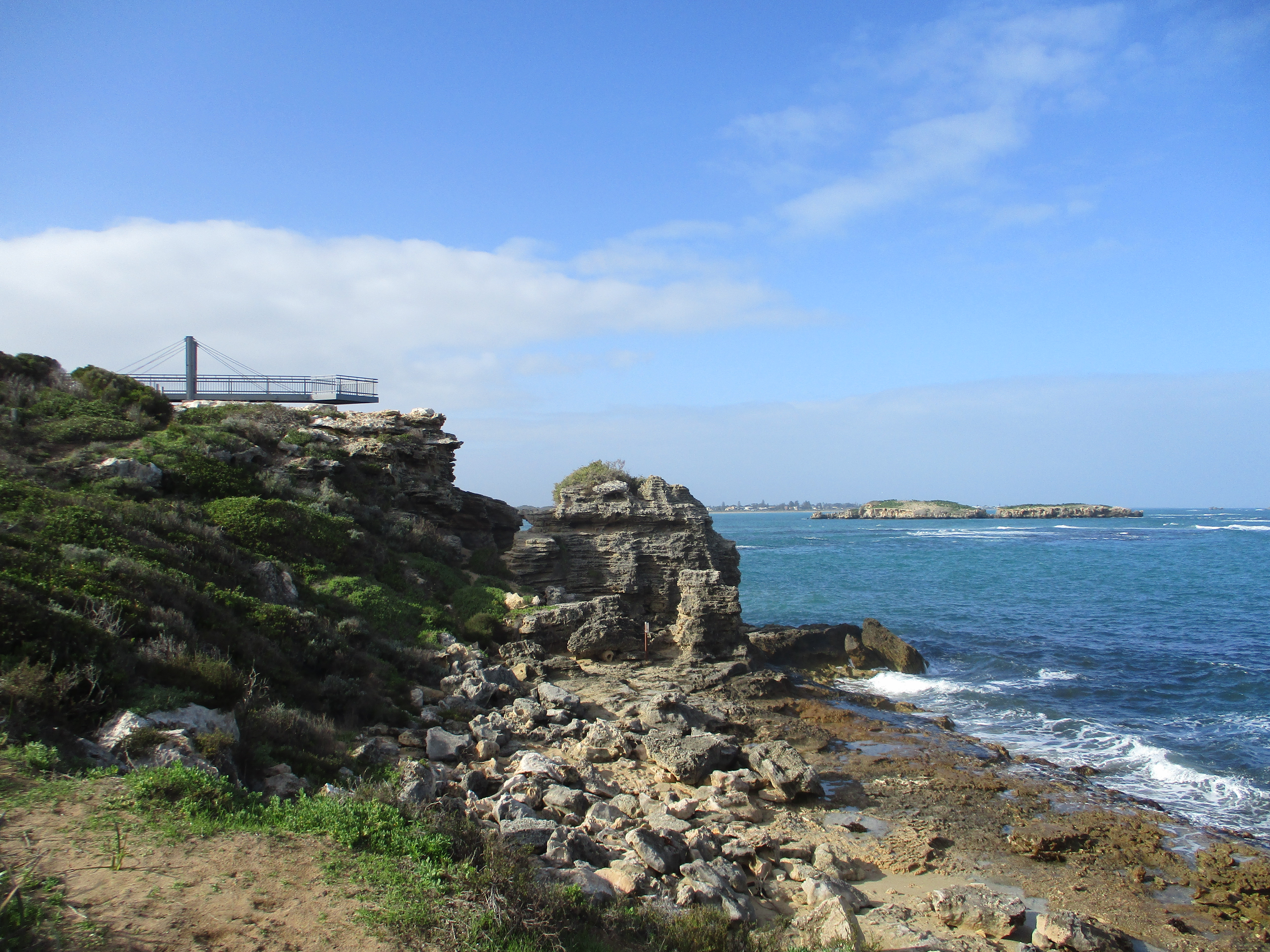 The lookout at Point Peron, Western Australia. Looking south at Shoalwater Bay.